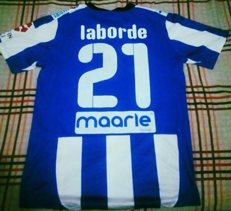 Ricardo Laborde Anorthosis shirt 2012